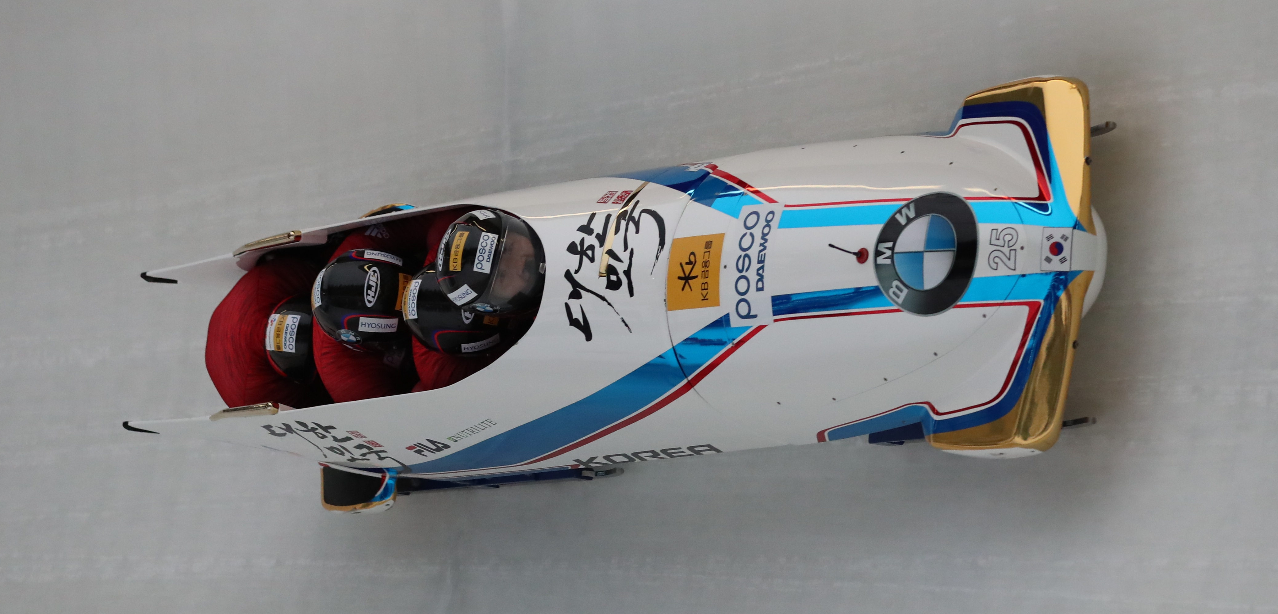 4-man Bobsleigh World Cup race at the 2018/19 Bobsleigh World Cup in Altenberg